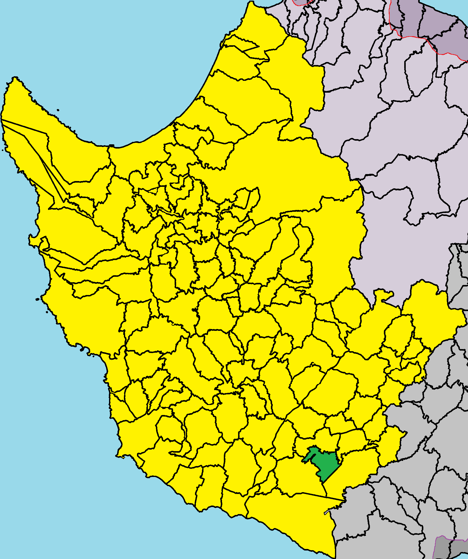 Fasoula in Paphos District.